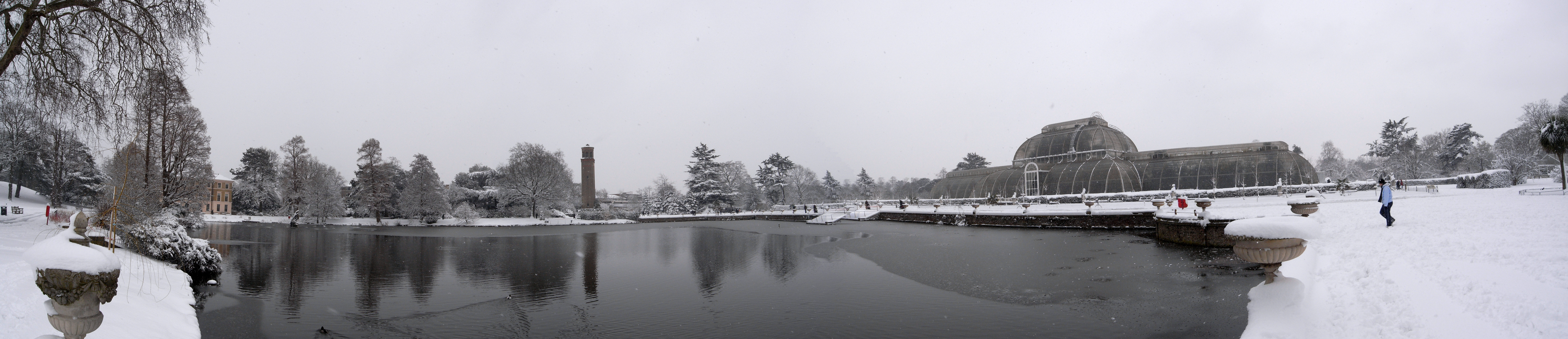 Panorama at Kew Gardens, London, showing the People and Plants Museum (left), the tower at Victoria Gate, the Palm House and the Waterlily House (just visible on the right). Six photos taken with Ricoh Caplio GX100, all at 1/320s, f/5.1, ISO 100, AWB, 24mm (equiv) zoom, hand held. Stitched with Arcsoft Panorama Maker 3. Levels adjusted in final image.